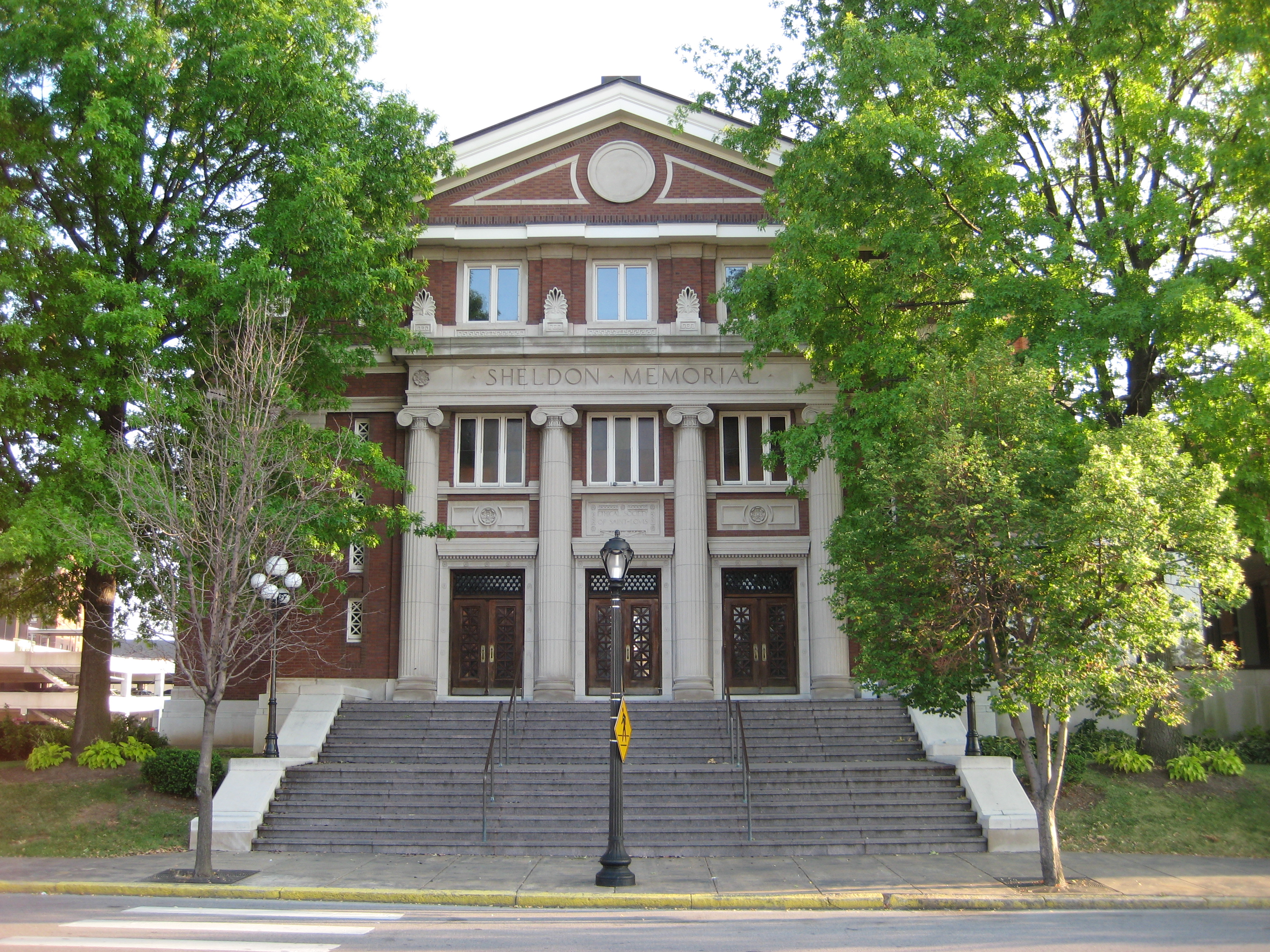 The Sheldon Concert Hall in St. Louis, Missouri, United States.